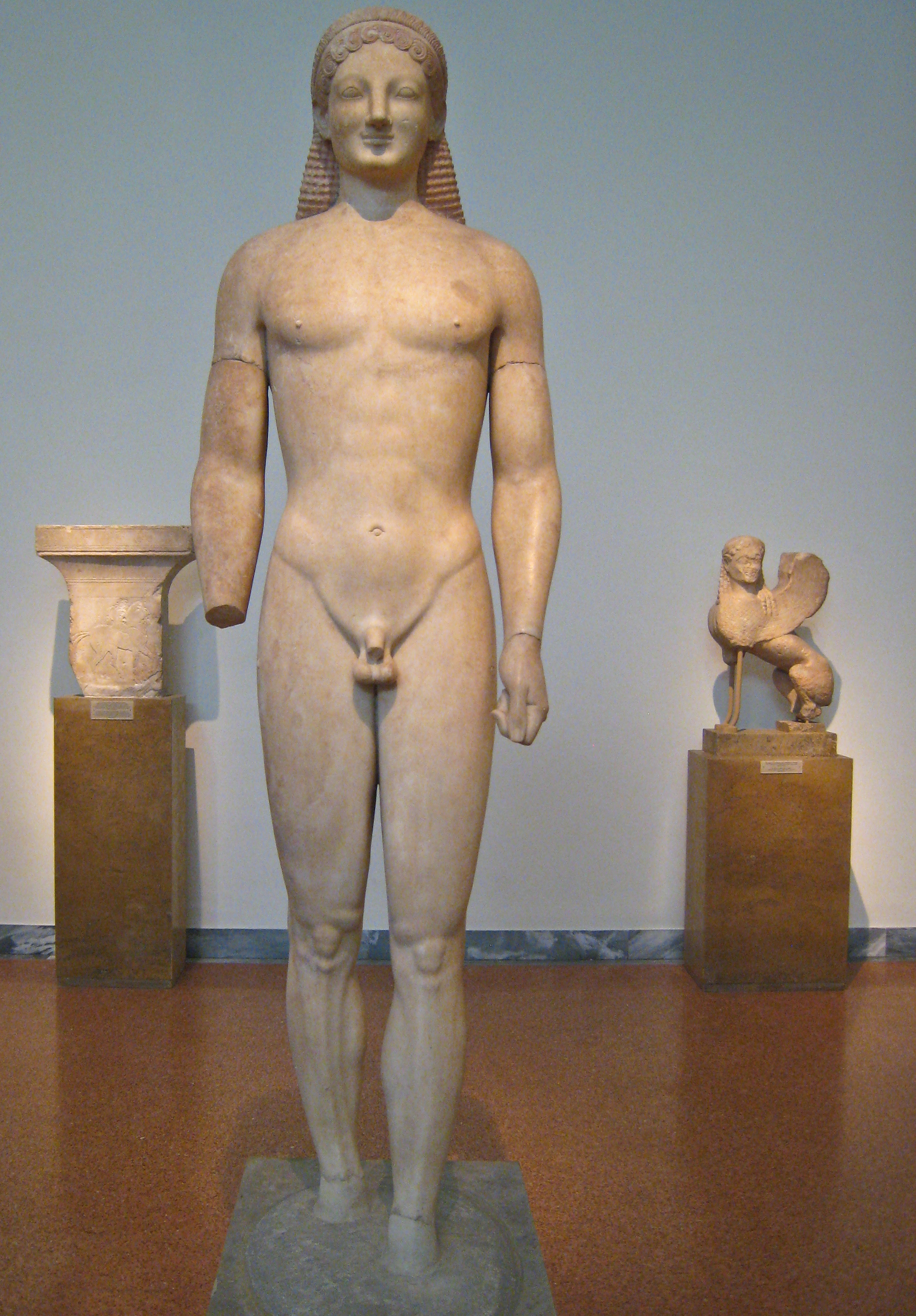 Statue of a Kouros. Parian Marble. Found in Merenda, Attica. 540-530 BC. National Archaeological Museum of Athens.